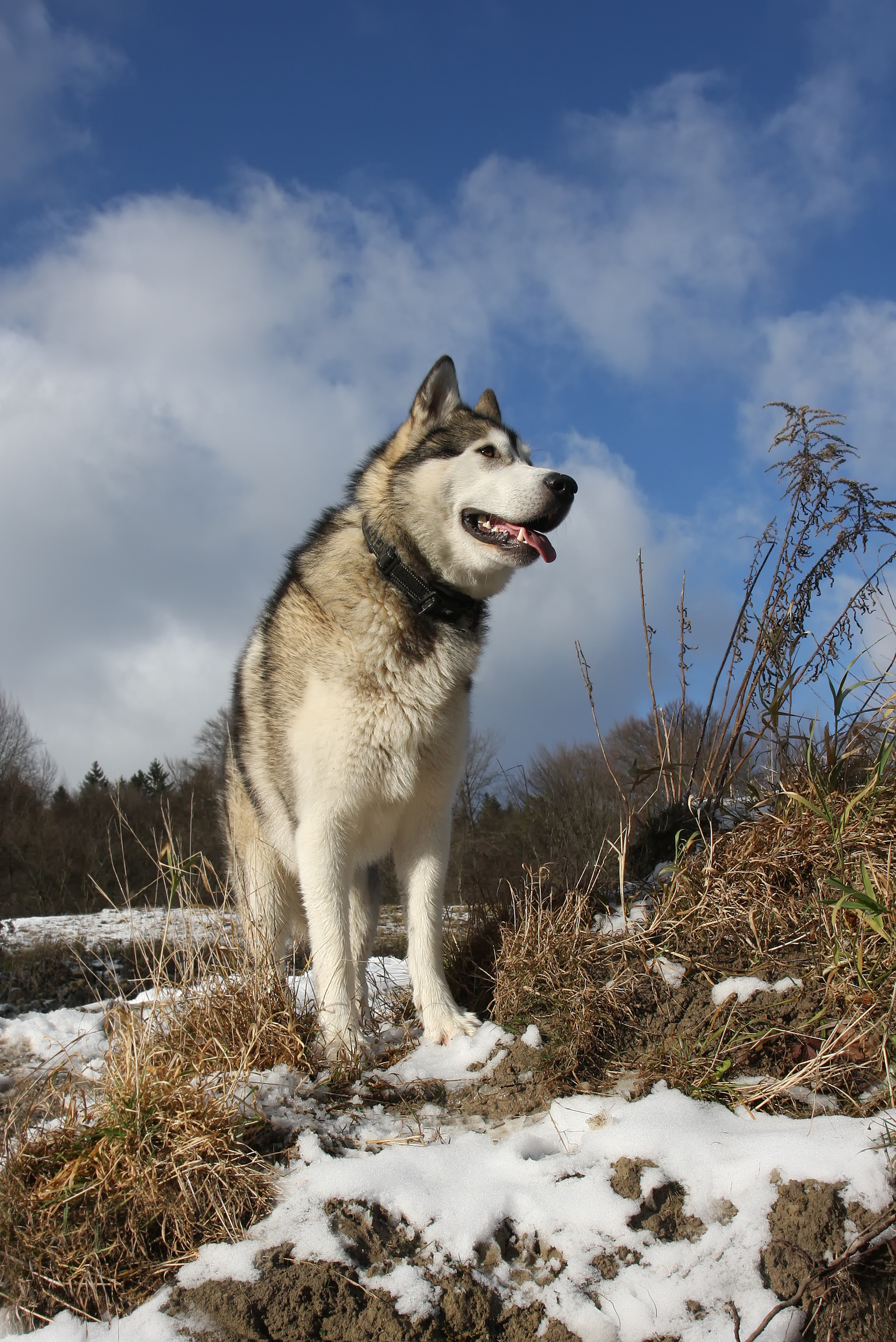 Alaskan Malamute dog.